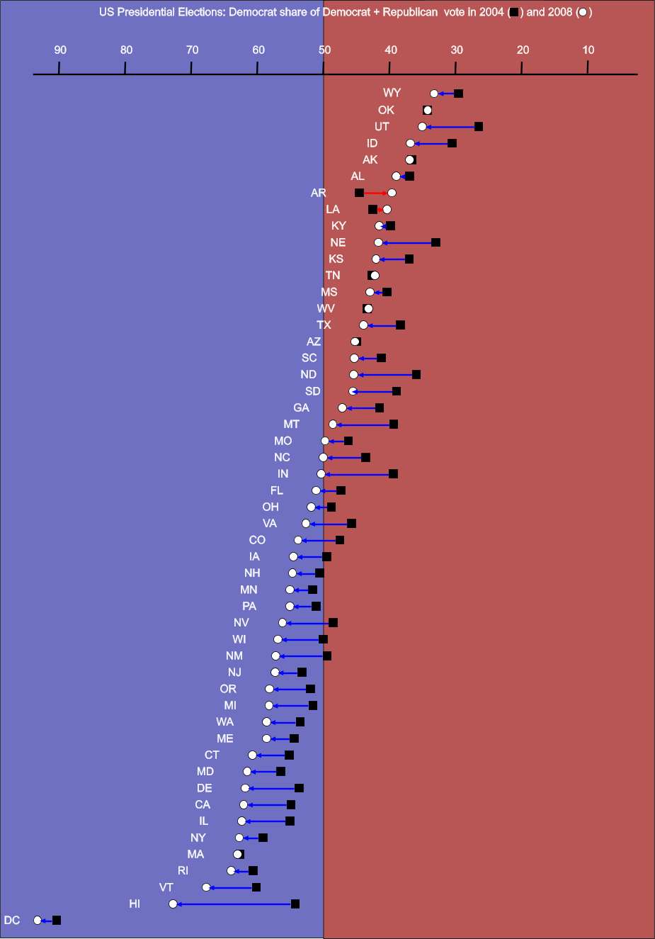 2008 presidential election results by state compared with 2004